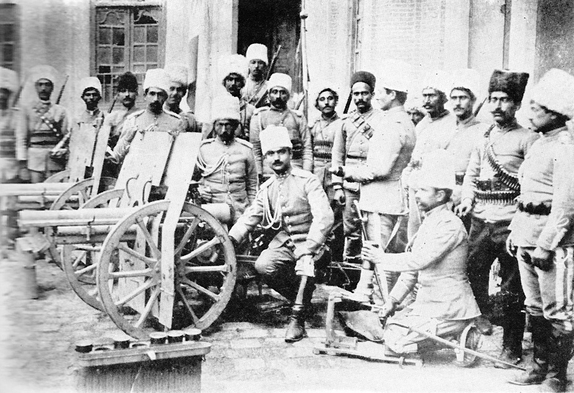 Artillery belonging to Gendarmerie at Tehran with Scheider-Cruzot-Schnellgeschützen